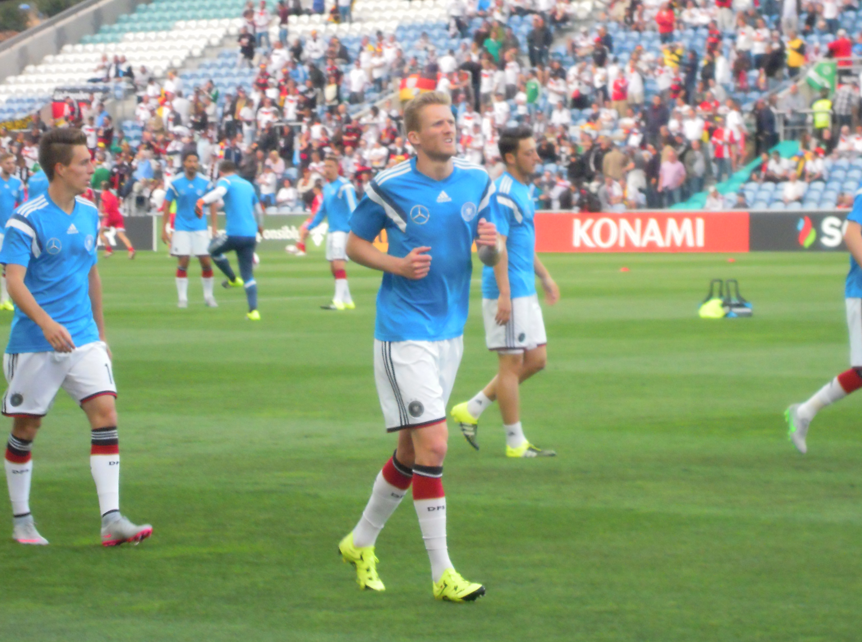 German football André Schürrle warm's up before the game. Gibralter playing Germany in the UEFA Euro Championship 2016 qualifier played at the Estádio do Algarve, near Almancil, Algarve, Portugal